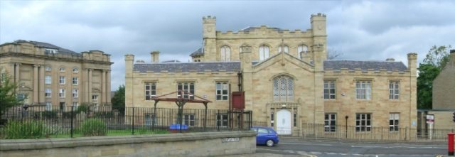 College and Apartments. The building in the foreground was originally the privately owned Huddersfield College which was opened in New North Road in 1838. It was closed in 1893 and then re-opened by the School Board on June 14th, 1894 as a Higher Grade School. In the latter part of the 20th Century it housed several local secondary schools whilst their new premises were built. It is now an annexe of Huddersfield Technical College. The building on the left of the picture; Highfields Court, was originally the Highfields Congregational Church. After the union of the Congregational and Presbyterian Churches the building became redundant and stood empty for some time before undergoing a complete internal restructuring for conversion to apartments for residential use. Subject & Observer GR: SE138171